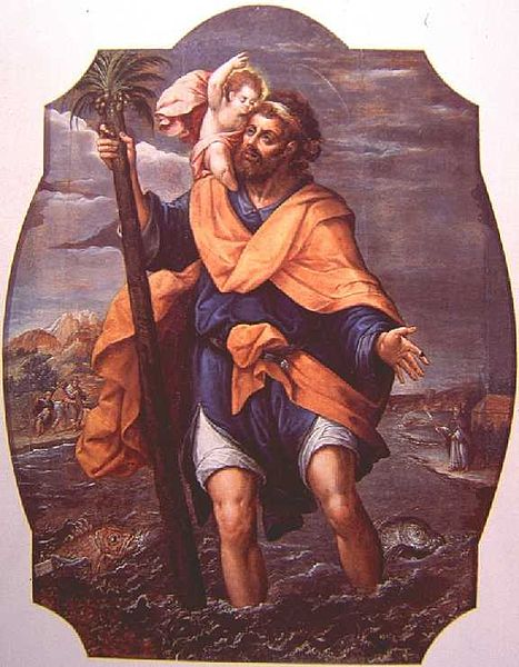 an Cristóbal 1588, Catedral de México by Simon Pereyns (c. 1530–1600); Flemish painter.